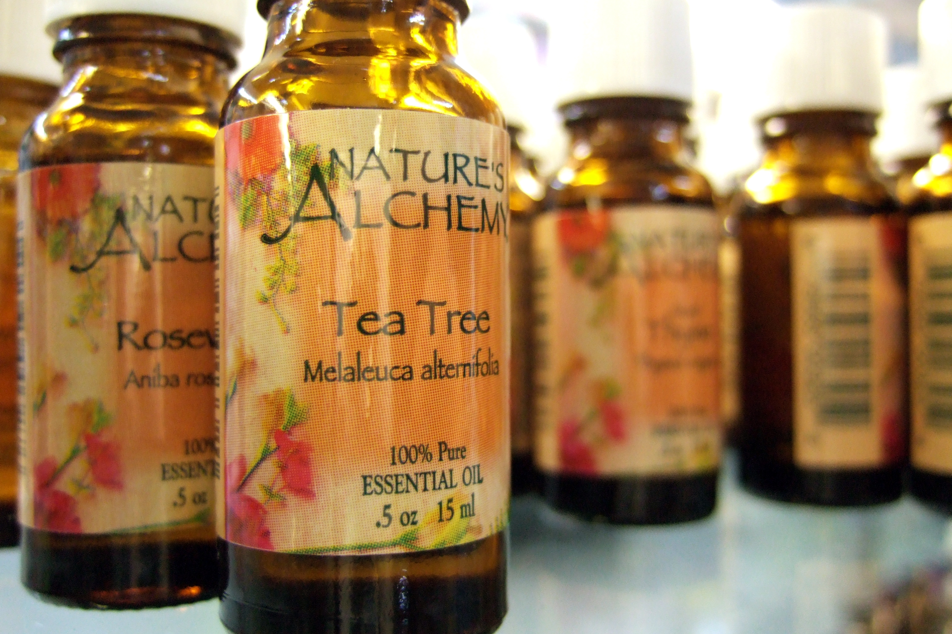 Tea Tree Oil